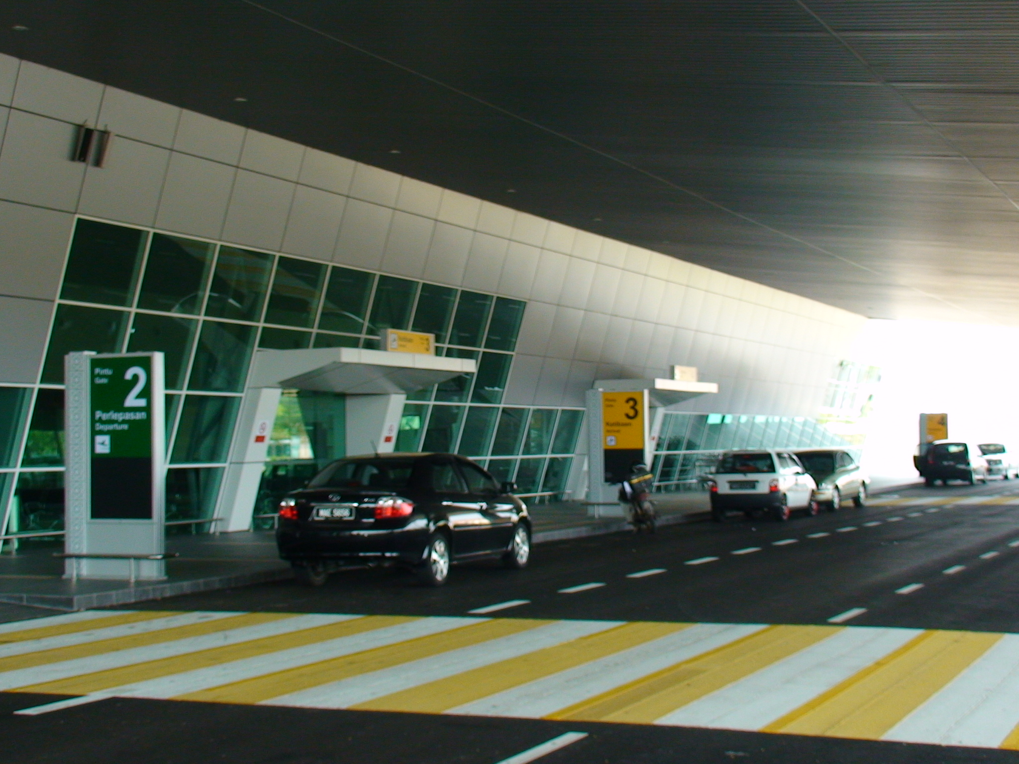 Entrance of the new terminal of batu berendam airport